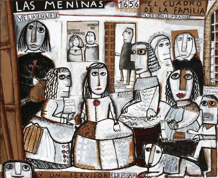 The Meninas